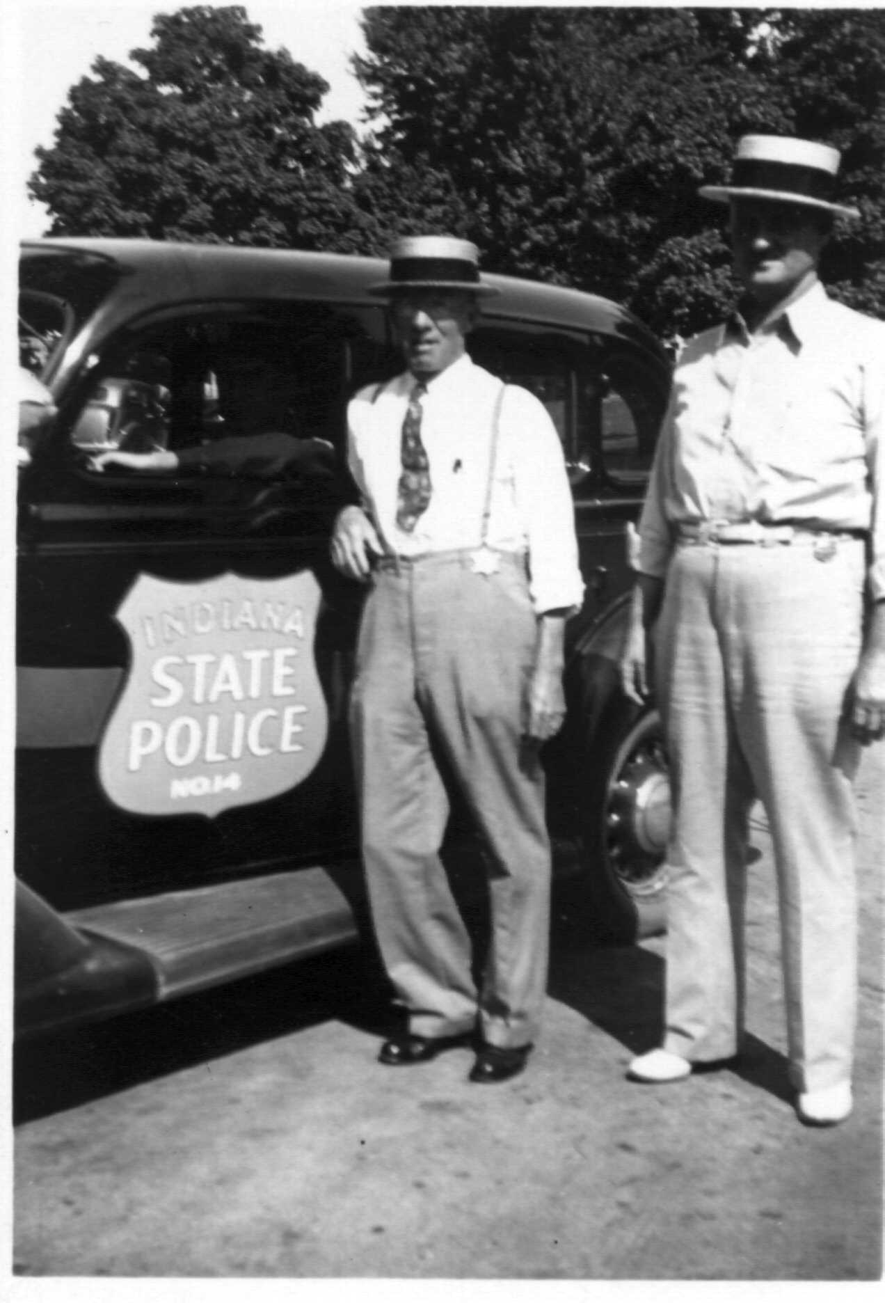 Bloomfield Policeman Lem Clark with Greene County Sheriff and Indiana State Police